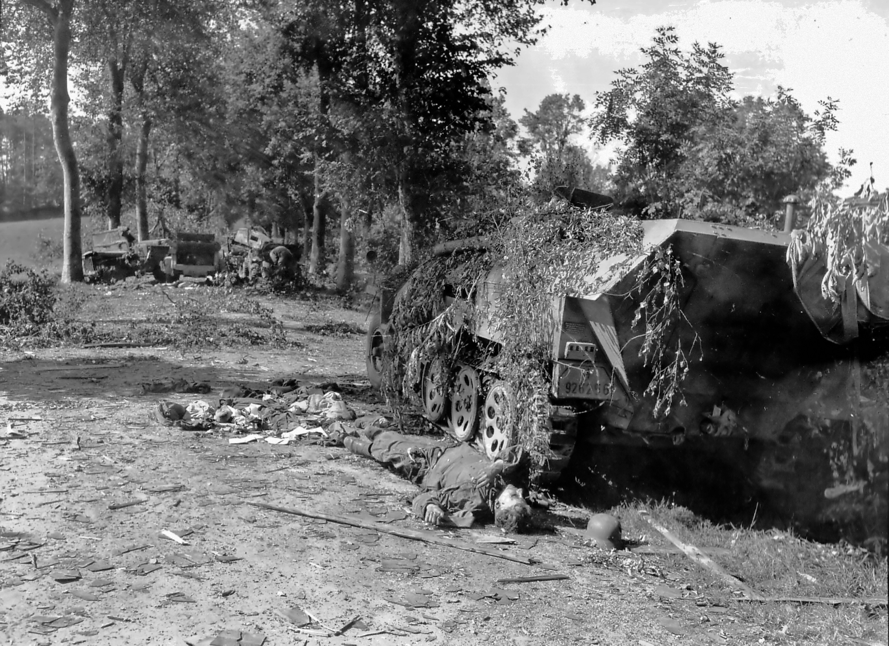 Aftermath of bombardment of Mortain in front of the station of Mortain-Le-Neufbourg, in the foreground a half-track vehicle Sdkfz of the 2.SS-Panzer division “Das Reich”, in the foreground the corpse of a dead German soldier.